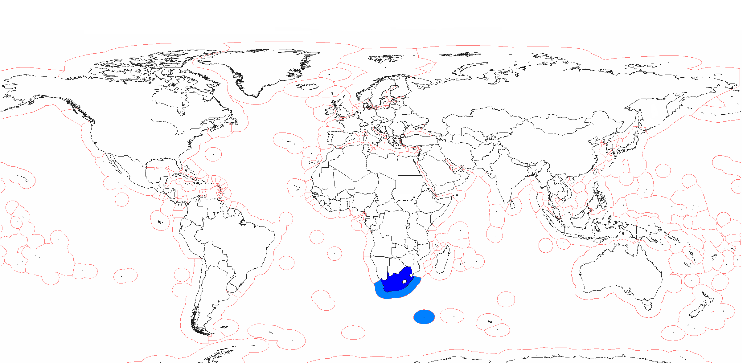 Exclusive Economic Zones Worldwide